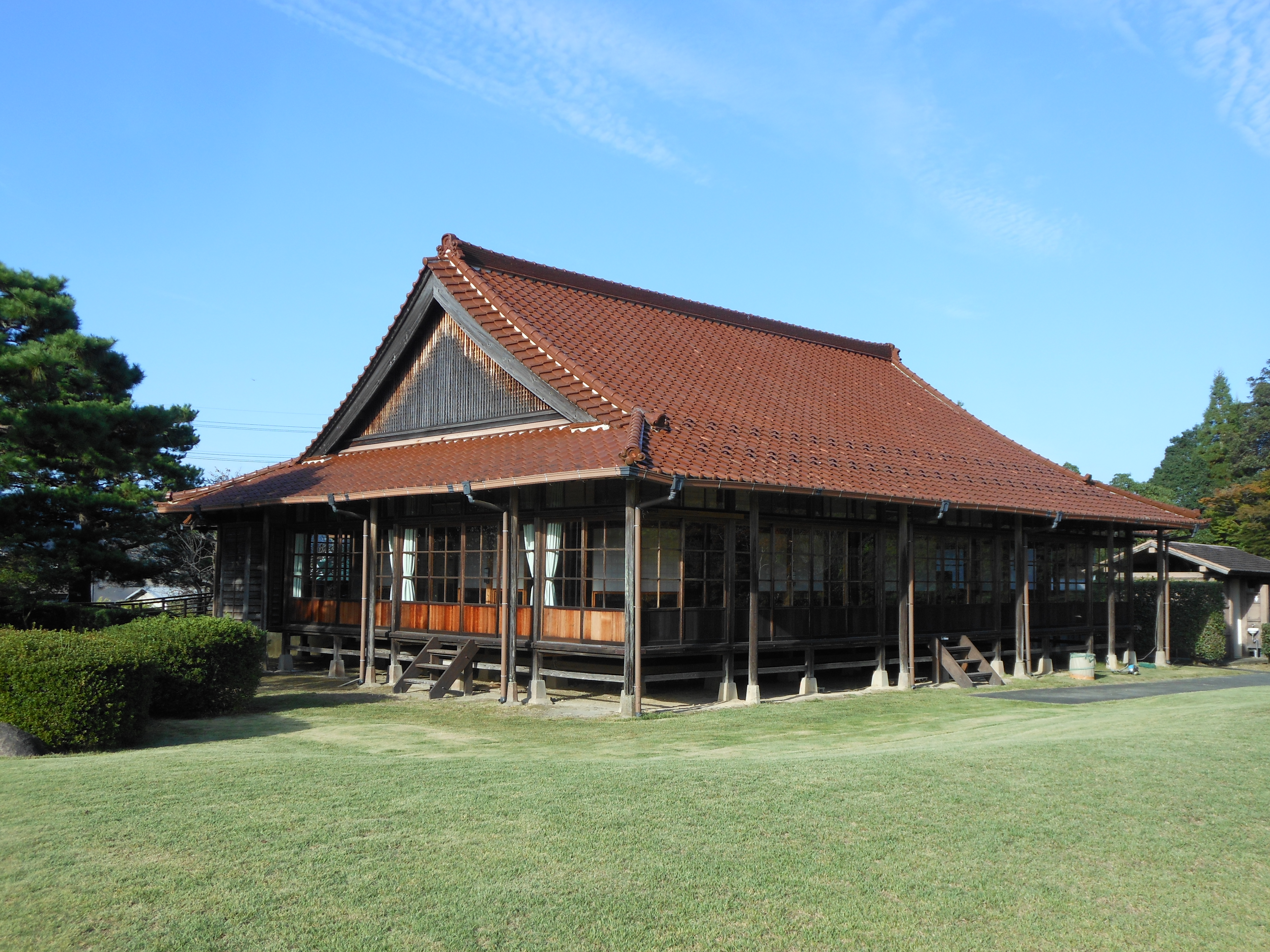 A view of Kan'ohtei (old public hall) at Seikei Park, in Taku city.